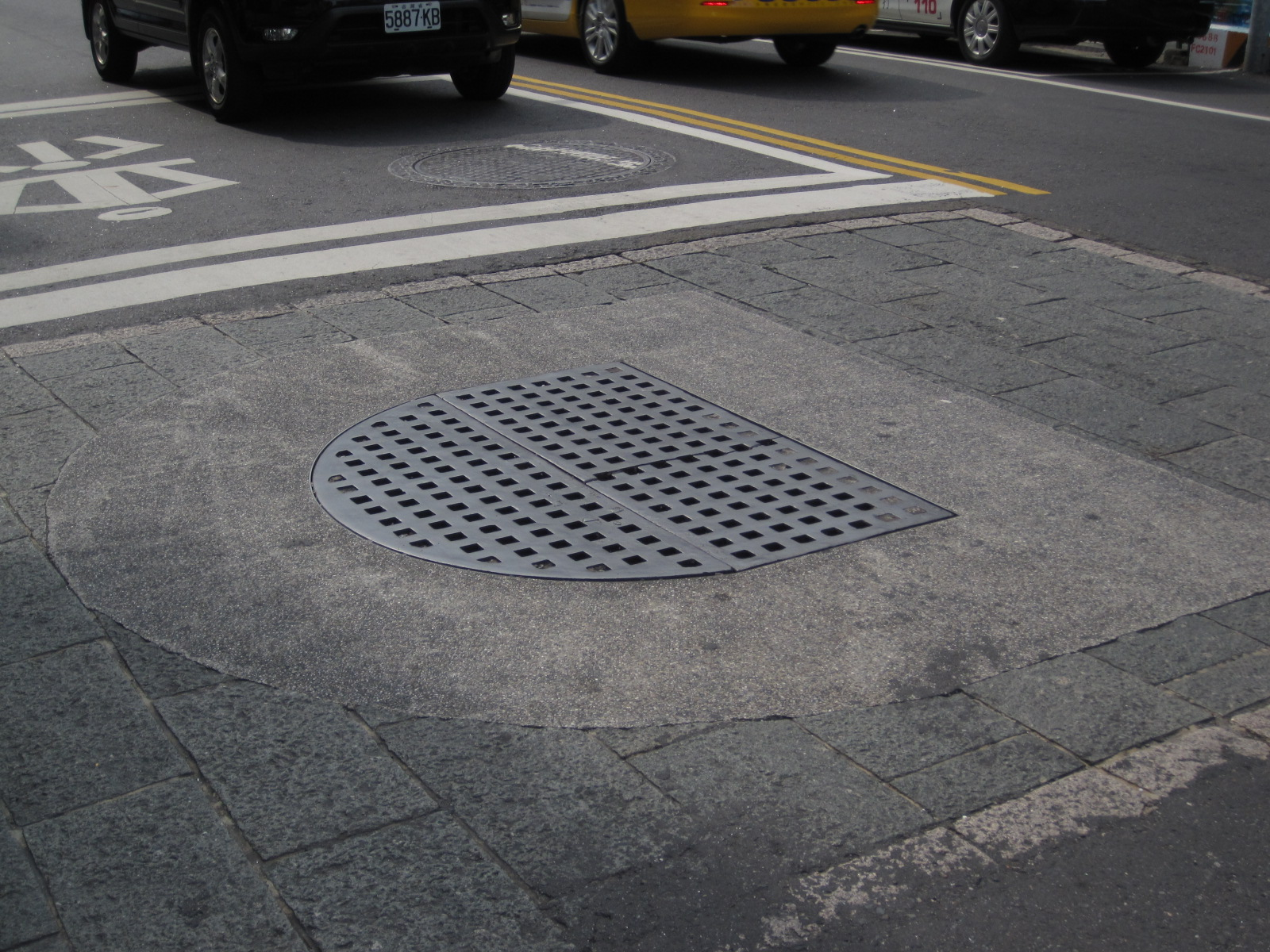 A historical well in Tainan, Taiwan.中文（台灣）: 臺南市市定古蹟「大井頭」